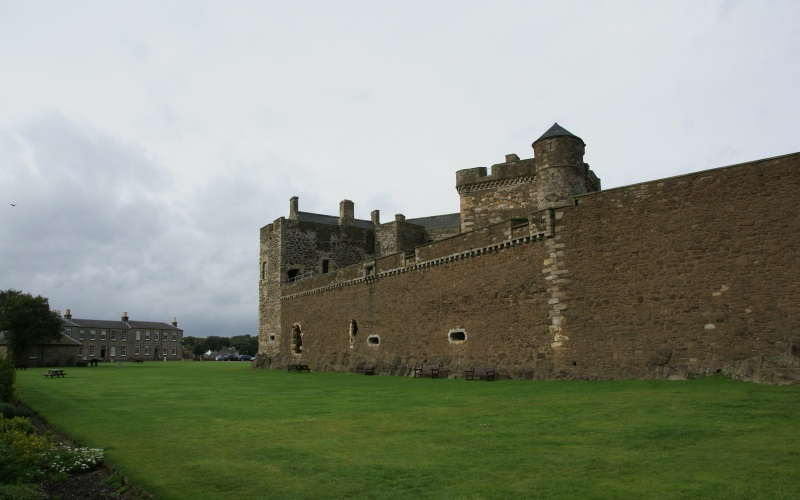 Blackness Castle, Falkirk, Scotland. View from the north east.